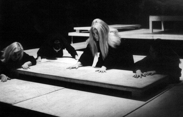 scanned photograph of Aureliu Manea's production of Racine's Britannicus, 1969